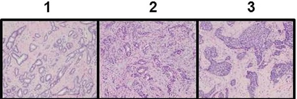 Representative microscopic images of invasive ductal carcinoma with various Nottingham histological grades of Tubule formation. For context, see Breast cancer classification.